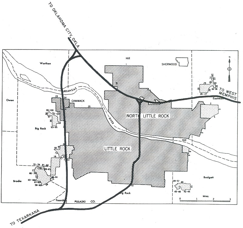 Interstates in today's terms I-30 I-40 I-430